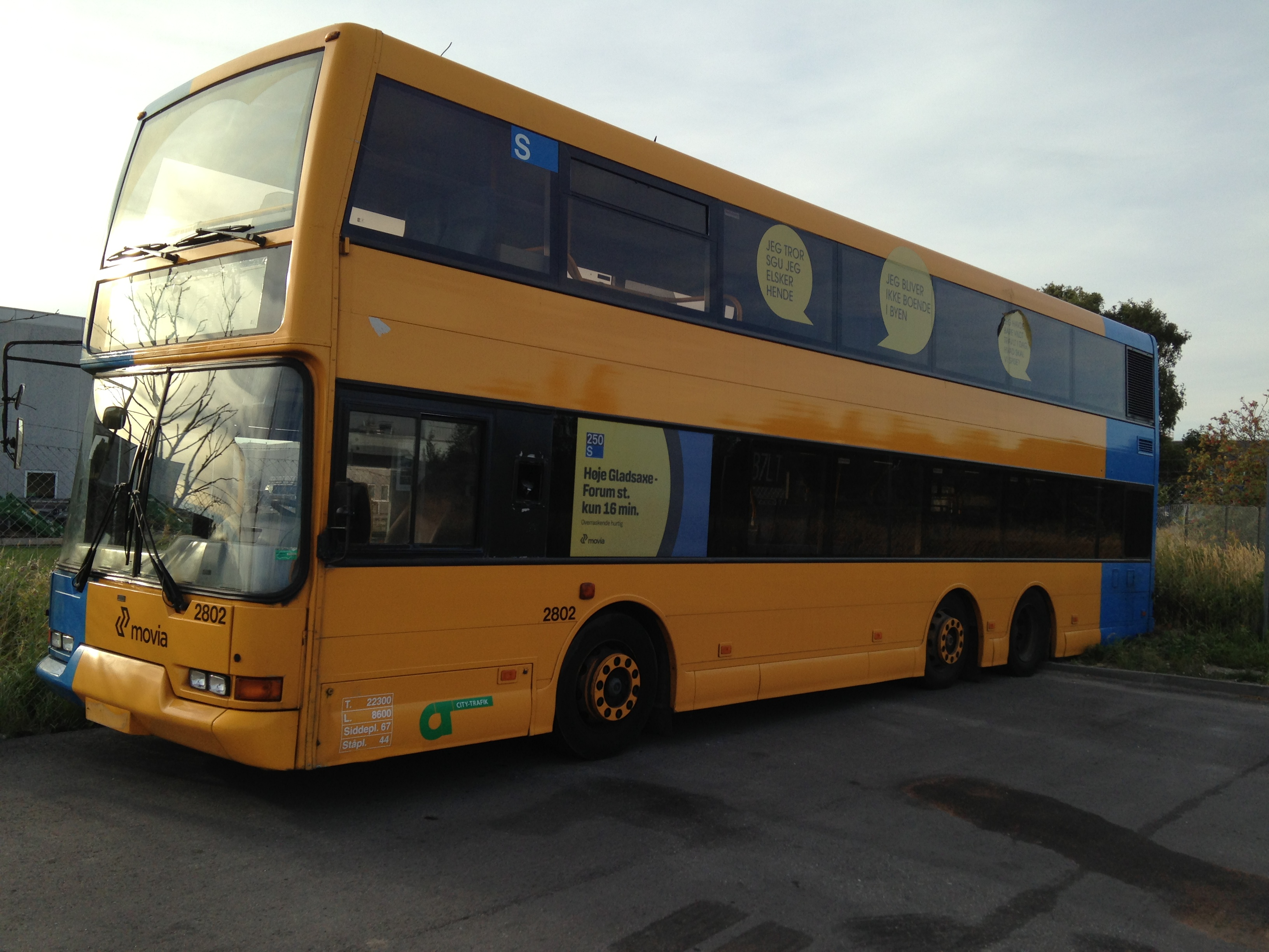 City-Trafik Volvo B7L double-decker bus